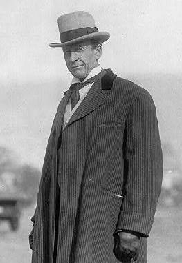 Moses P. Kinkaid, US Representative from Nebraska